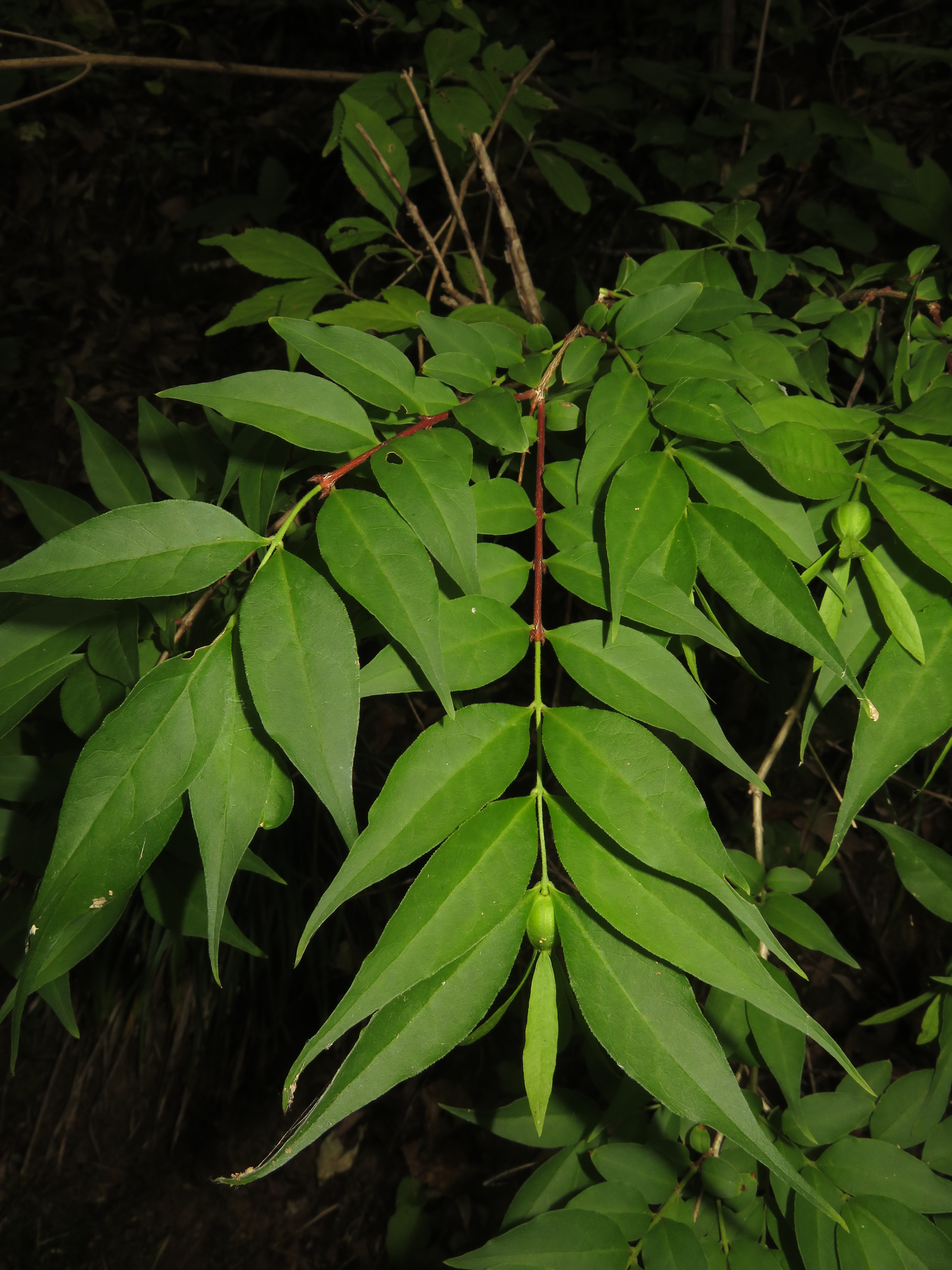 Buckleya lanceolata, Aizu area, Fukushima pref., Japan